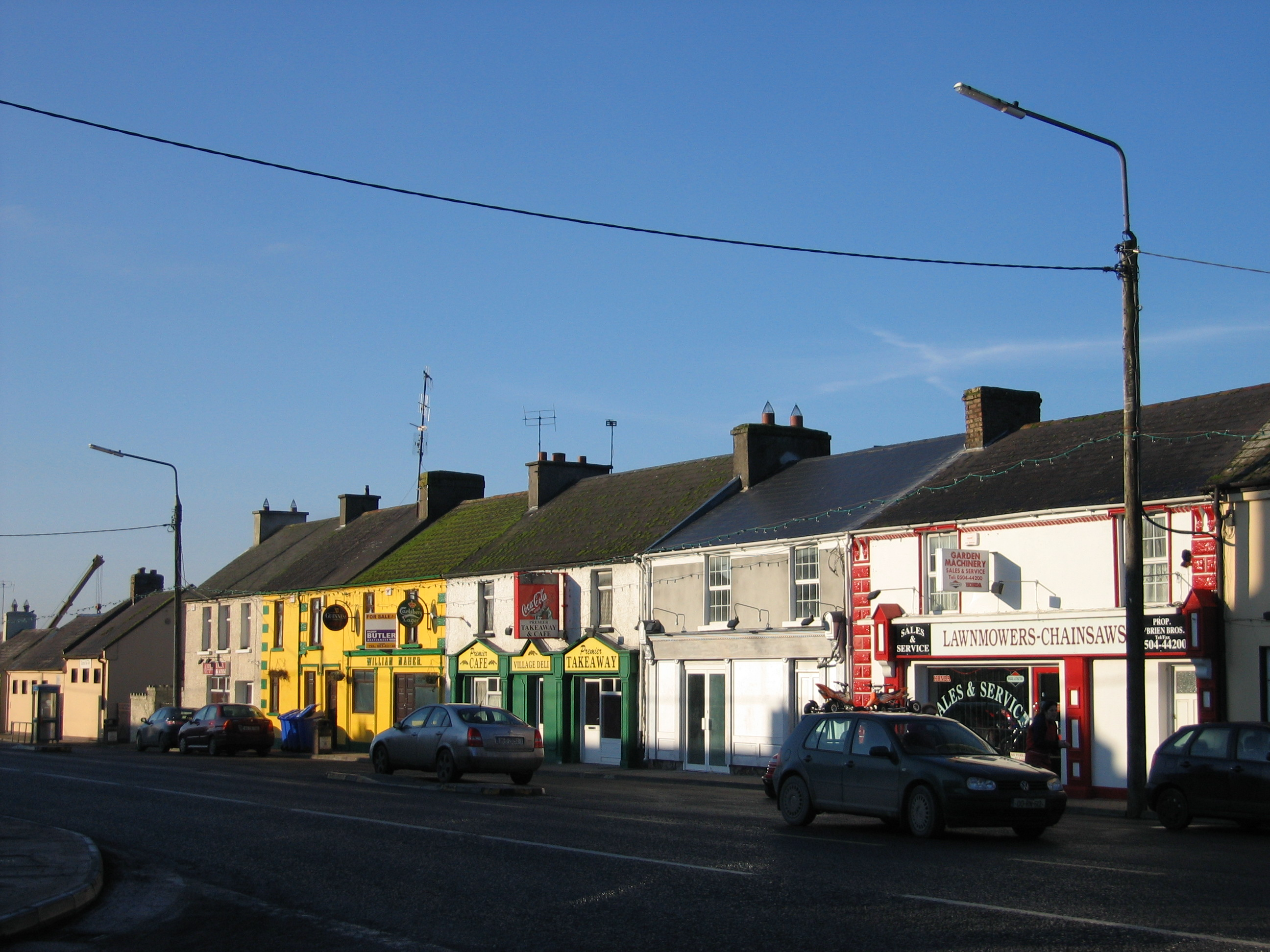 Littleton on the N8